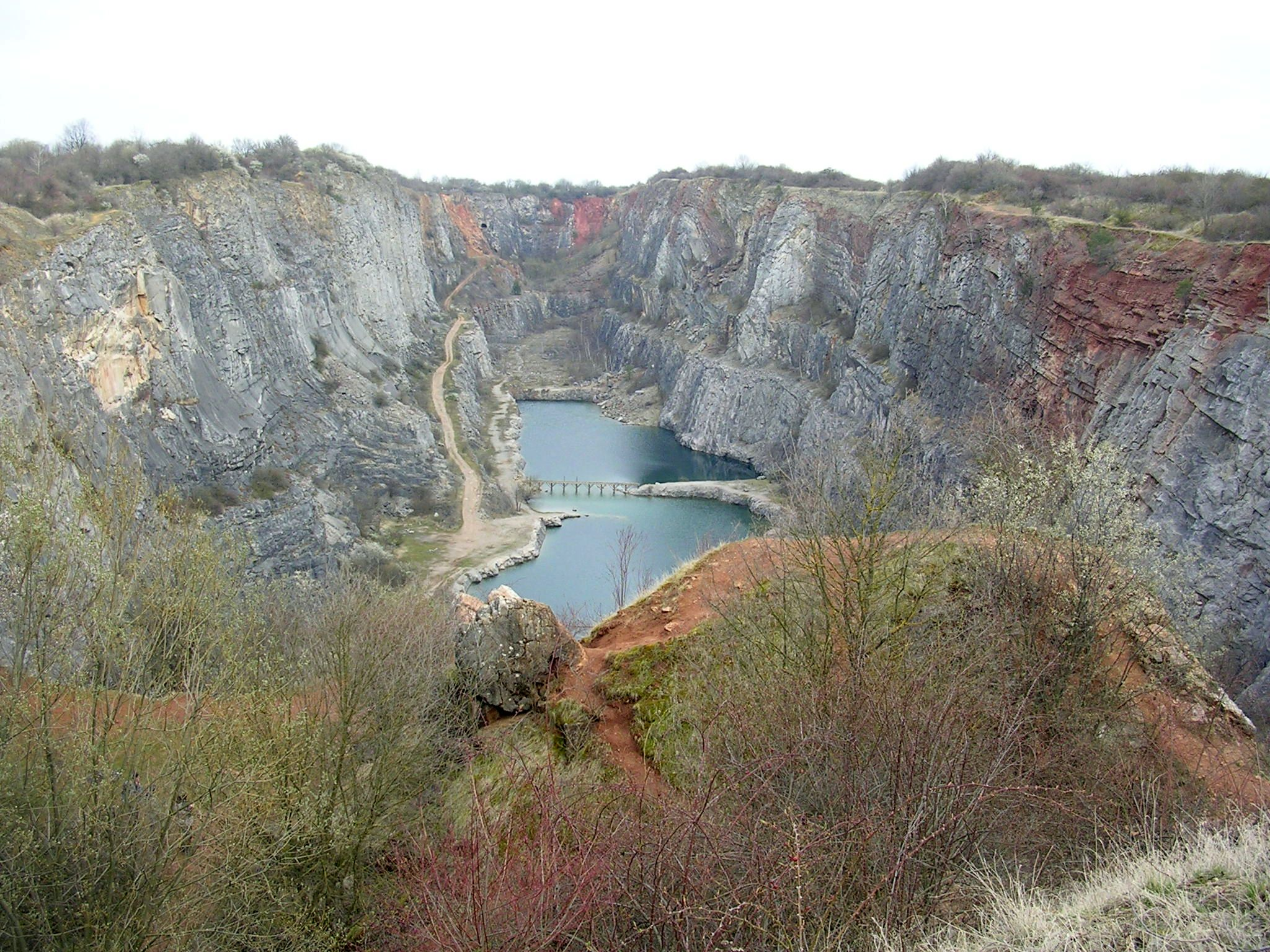 quarry Velká Amerika near Mořina, the Czech Republic.